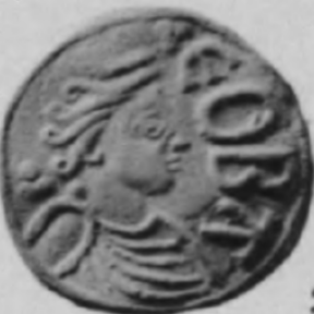 Bust of Queen Cynethryth, wife of Offa of Mercia. Cynethryth is the only Anglo-Saxon queen in whose name coins were issued. Legend reads "EOBA", the name of the moneyer who produced this coin.